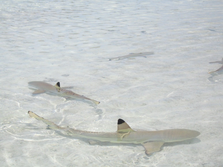 Juvenile blacktip reef sharks (Carcharhinus melanopterus) cruising in very shallow water at Rangiroa.